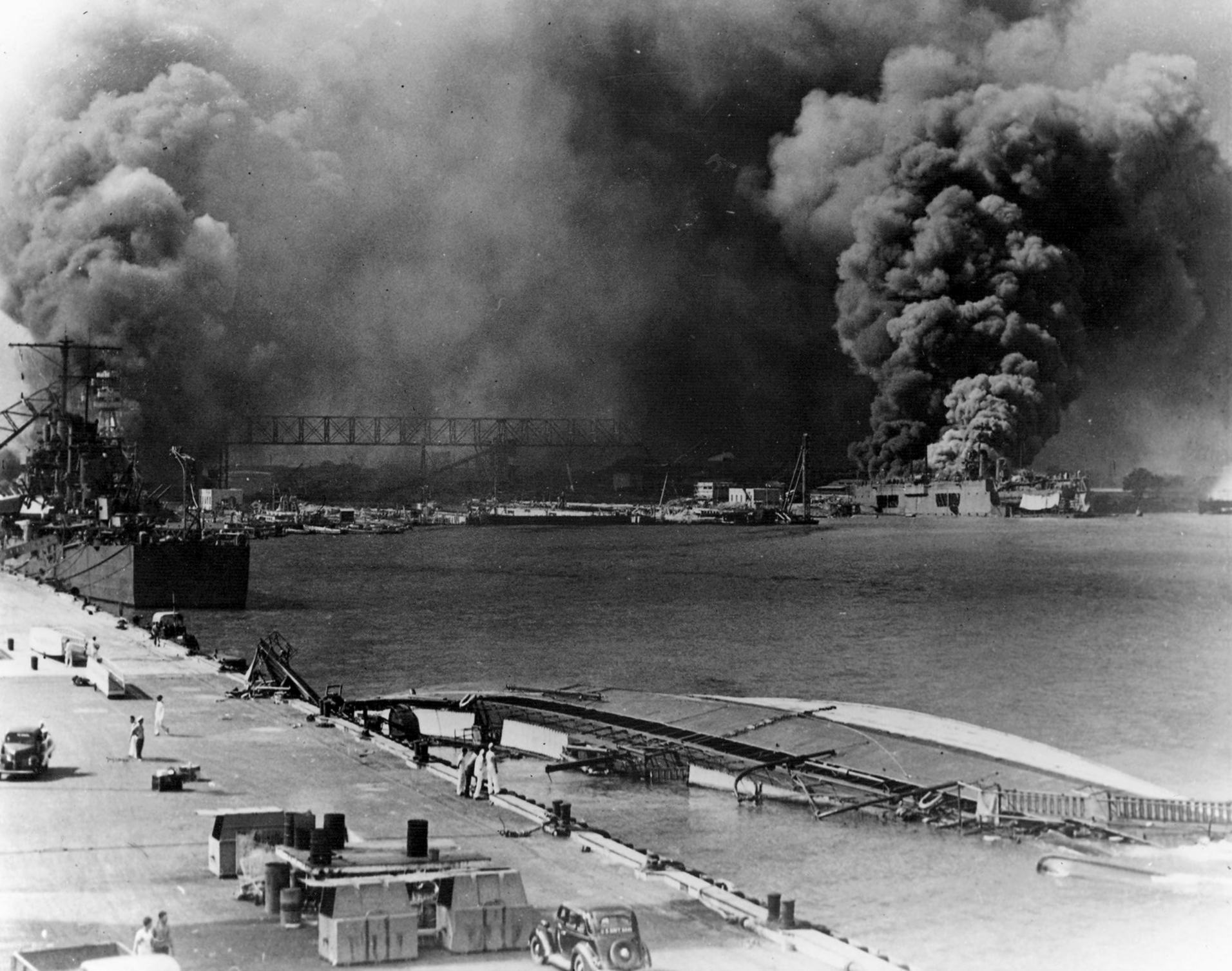 View of Pearl Harbor, Hawaii, during the Japanese attack on 7 December 1941. In the forground is the capsized minelayer USS Oglala (CM-4). She had been damaged by a torpedo that had actually hit the light cruiser USS Helena (CL-50), visible on the left. Helena was towed forward, while Oglala sank. On the right is the burning destoyer USS Shaw (DD-373) in floating dry dock YFD-2. USS Pennsylvania (BB-38) is visble behind USS Helena.